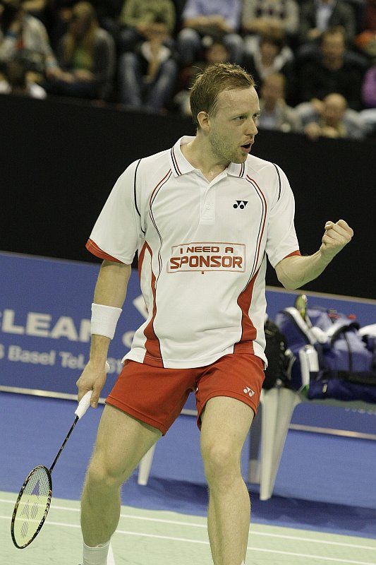 Thomas Laybourn, Wilson Swiss Open 2010